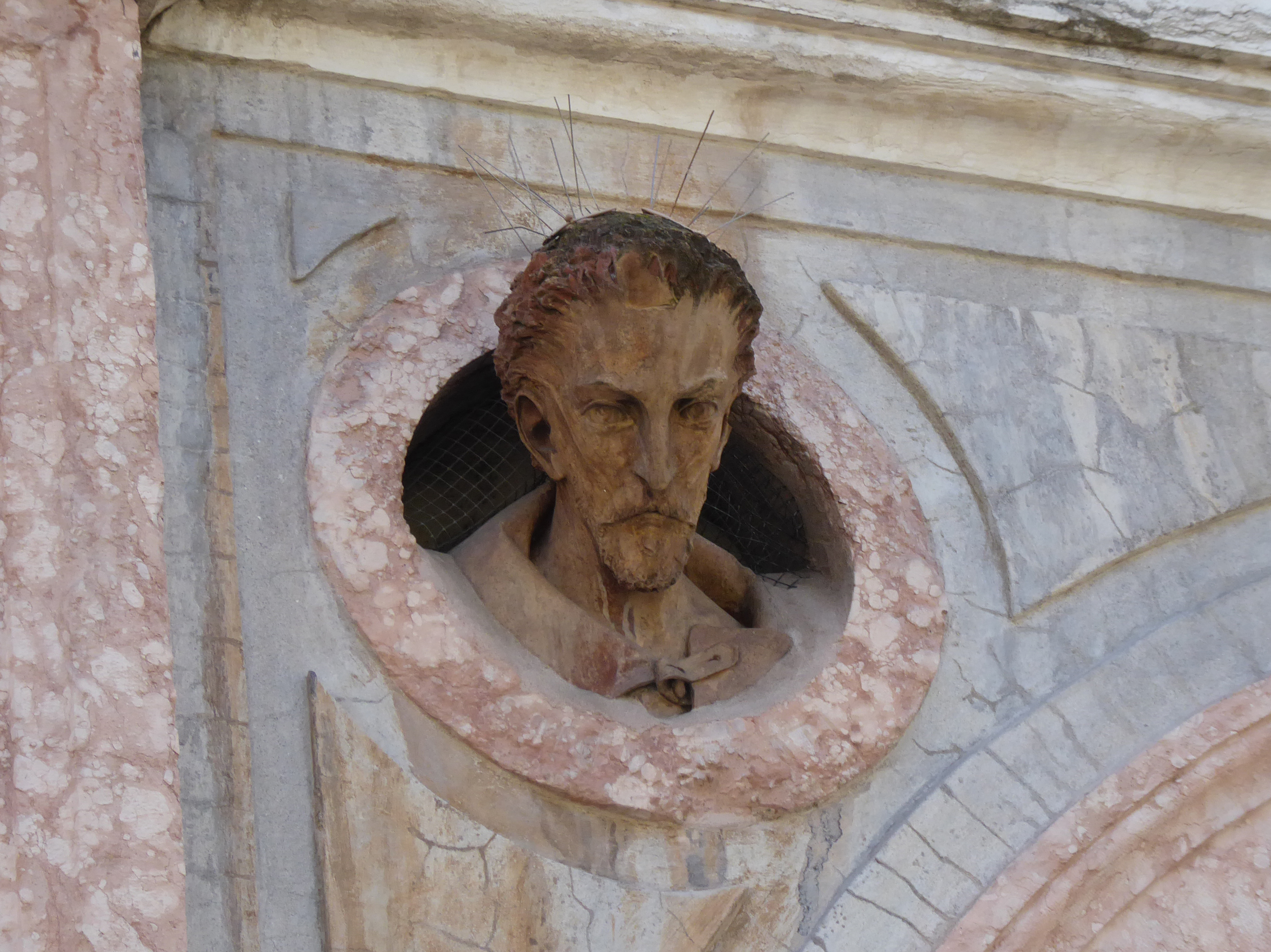 Bust of Nicolò Dorigati on the facade of Palazzo Ranzi, in Trento, by Andrea Malfatti